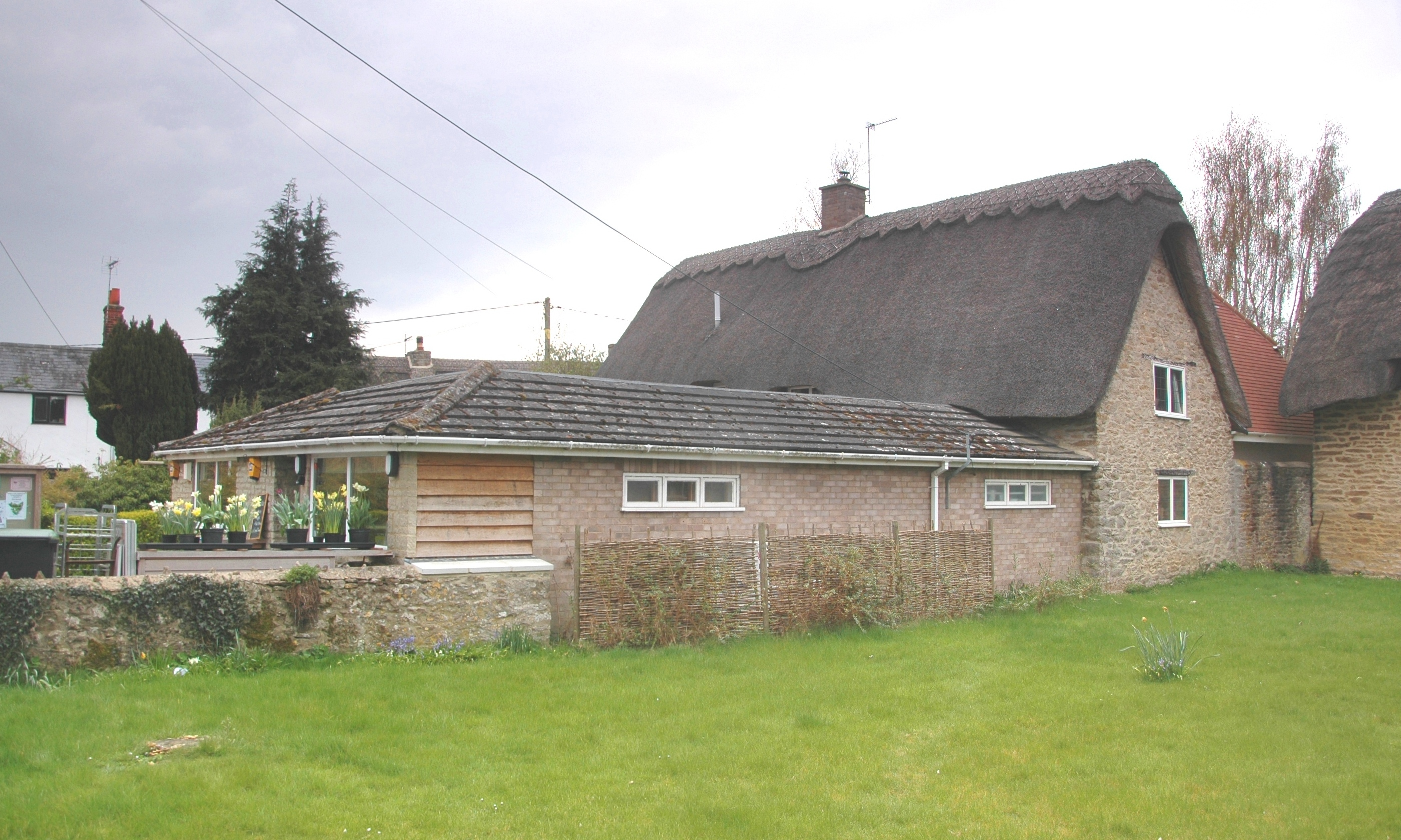 Village shop in Appleton, Oxfordshire